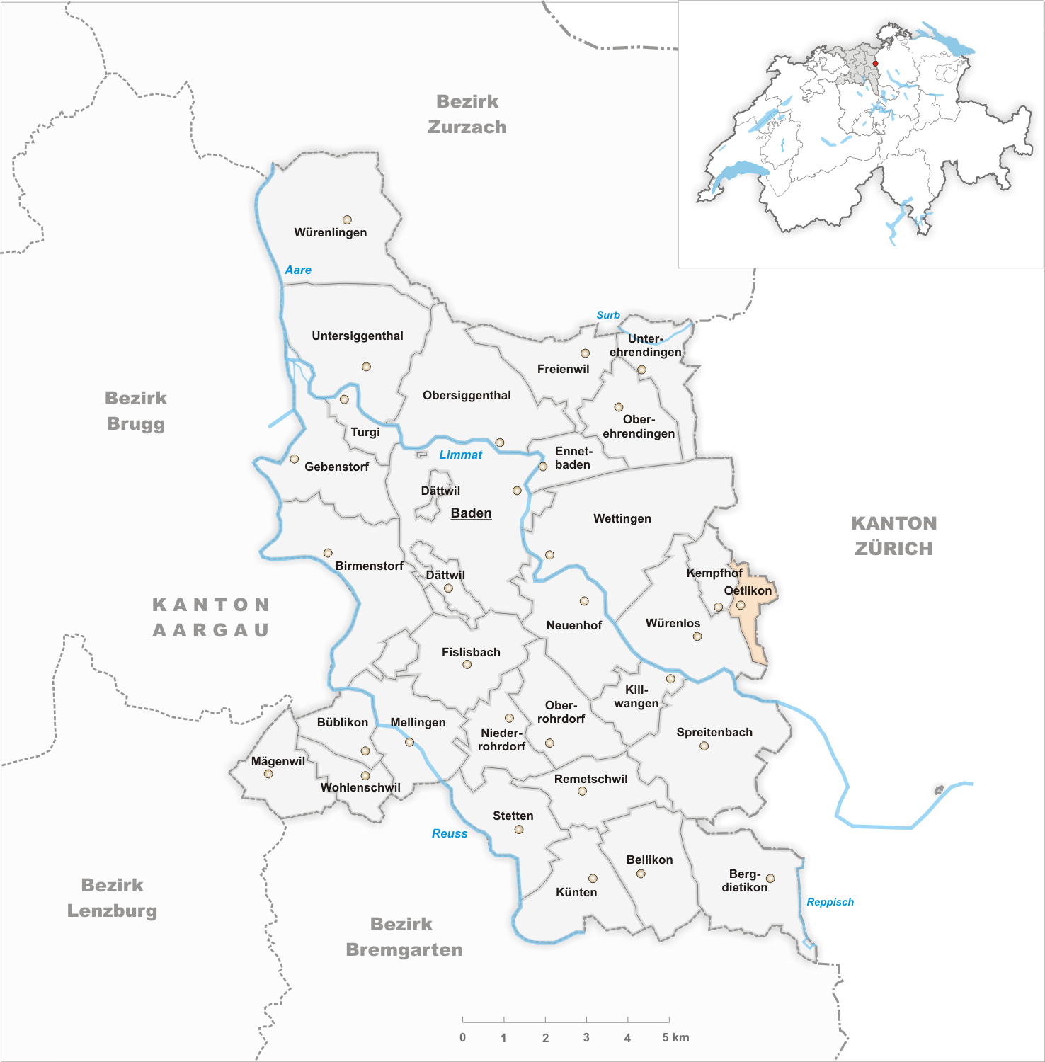 Municipality Oetlikon